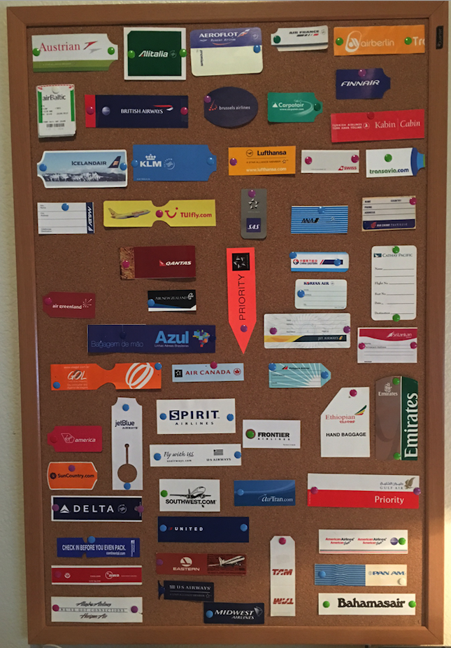 Examples of luggage address tags provided by airlines.